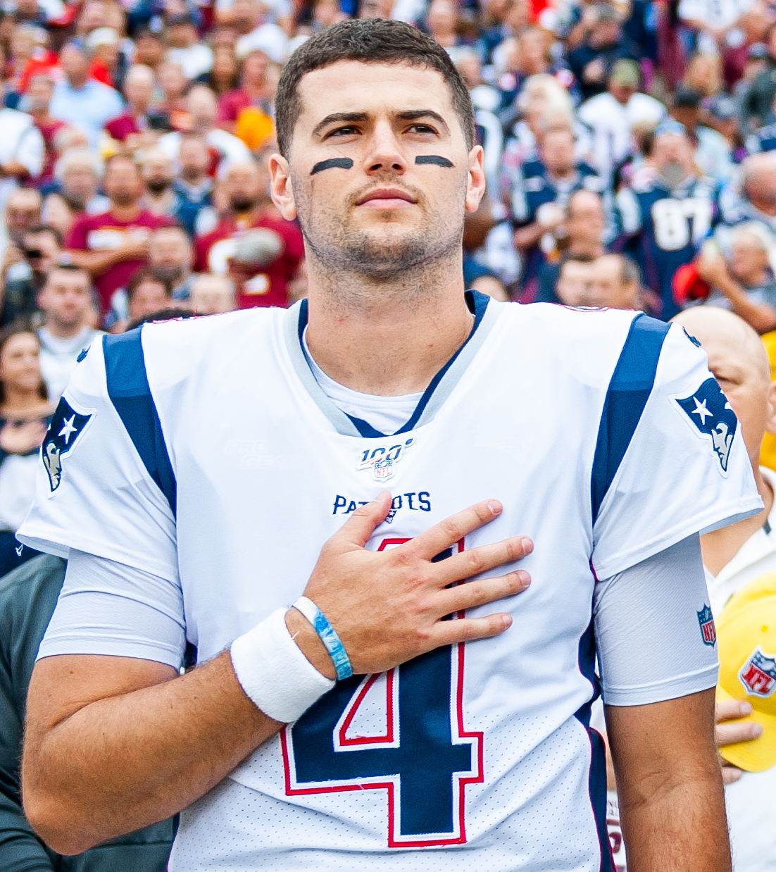 Brady and Stidham in 2019